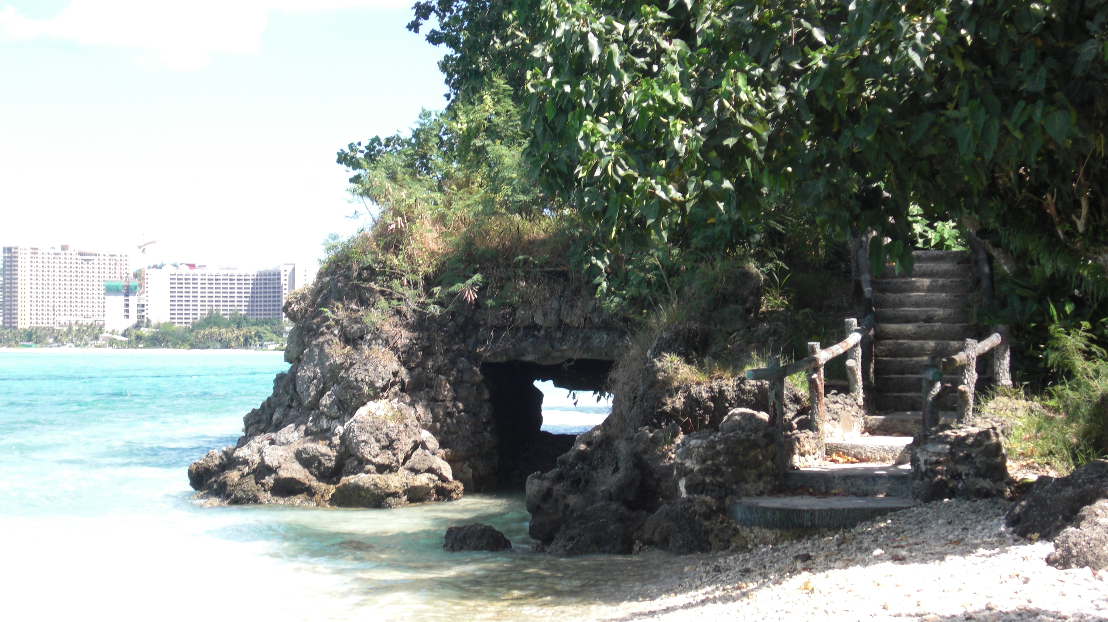 Road to Marriott from Ypao Beach Park